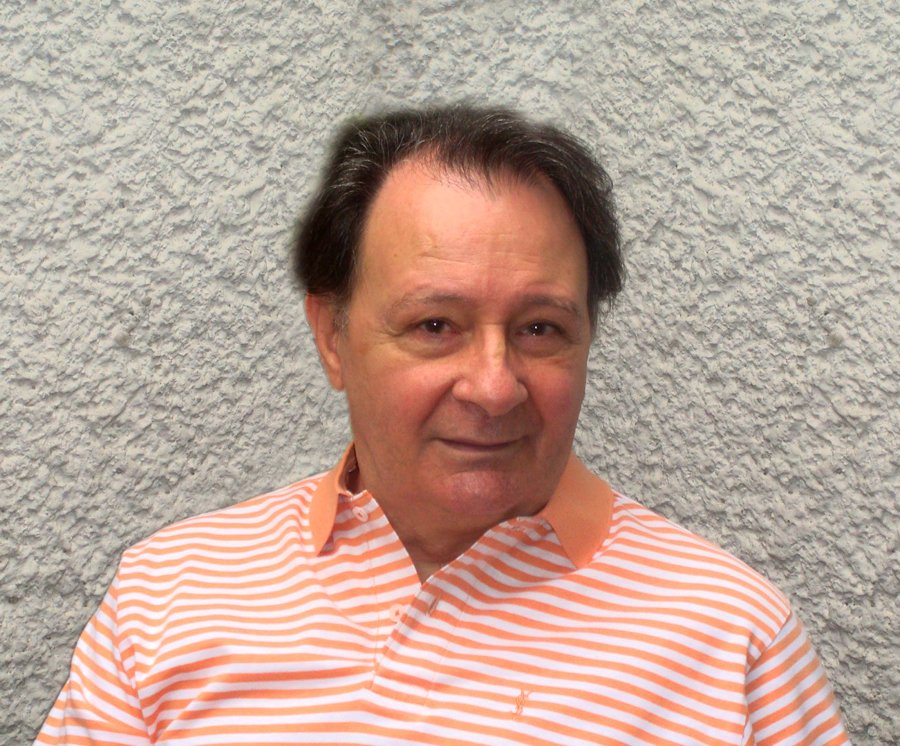 Jorge Núñez writer